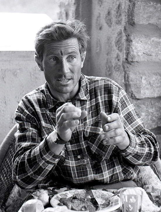 Walter Bonatti sits with a lunch tray on his knees, while talking and gesticulating; he is back from climbing Pointe Whymper in Grandes Jorasses, with the Swiss mountain climber Michel Vaucher. Grandes Jorasses, Mont Blanc (France), 1964.